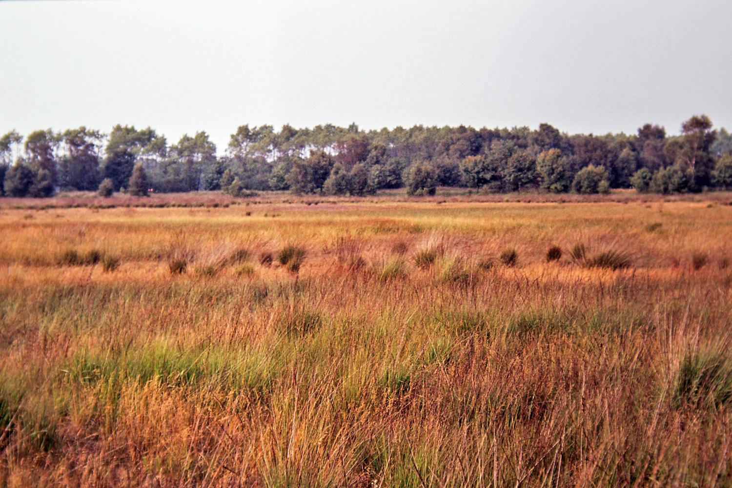 Bog and nature reserve "Schwarzes Meer", district Wittmund, northwestern Lower Saxony, Germany.